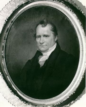 Image of Joseph C. Yates